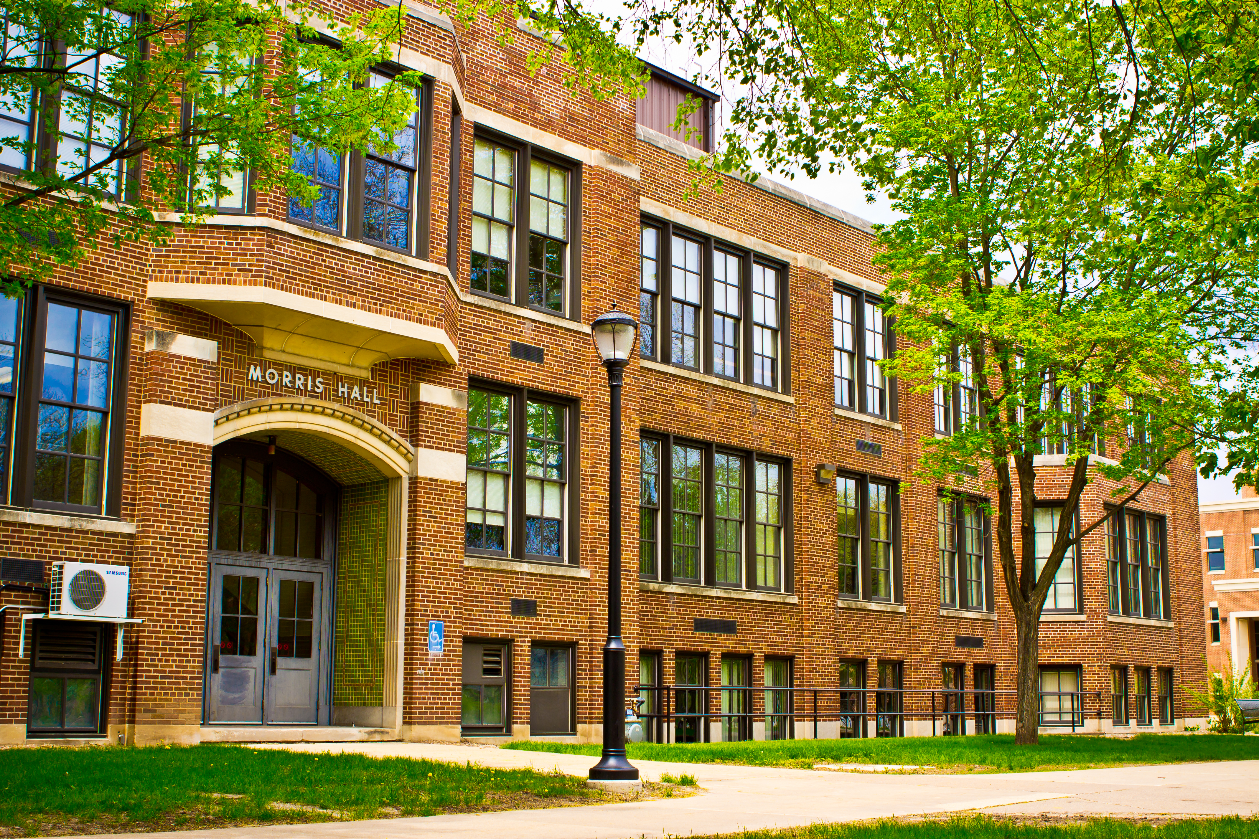 LaCrosse State Teachers College Training School Building, 1615 State Street LaCrosse. Built circa 1939. Designed by Milwaukee, Wisconsin, architects Brust and Brust. Active elementary school from 1939-1973. Currently used for teacher education classes.